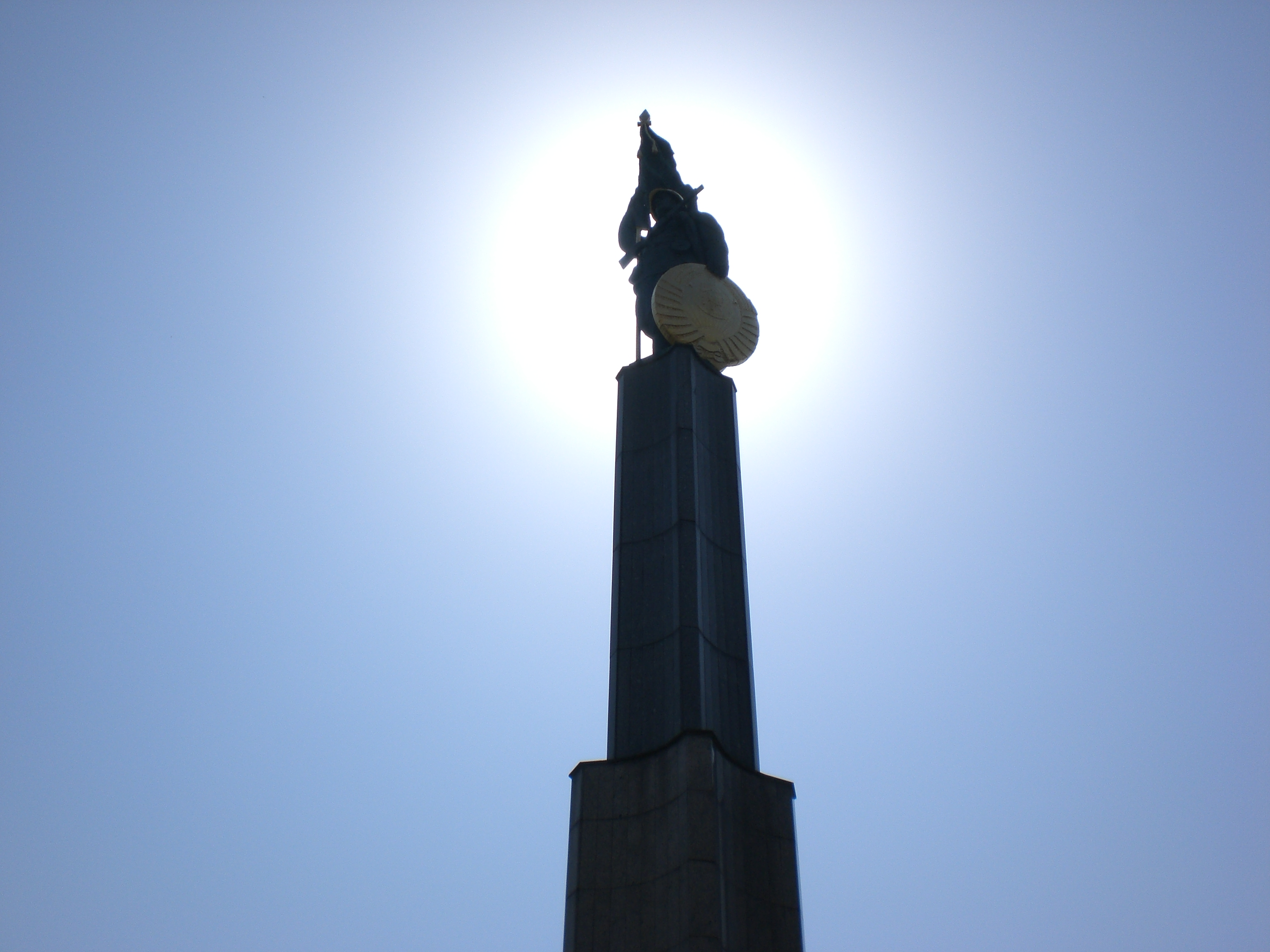 Austria, Vienna, Schwarzenbergplatz, Heroes Monument of the Red Army